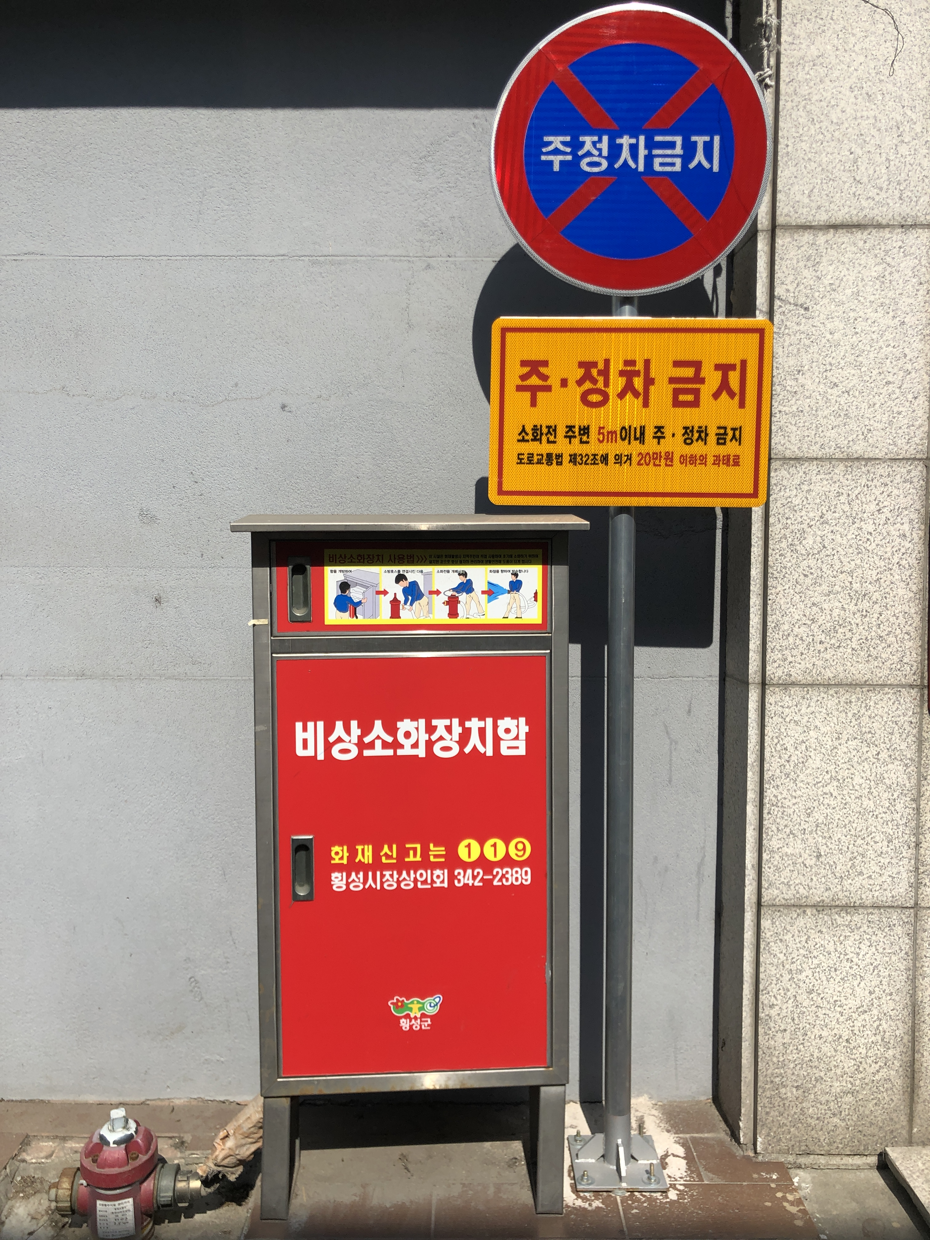 횡성군 횡성읍에 위치한 비상소화장치